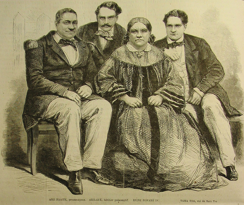 Arii Faaite, Arii-Aué, Reine Pomaré IV, Tama Toa. Engraving from a photograph by Eugène Courret from the newspaper L'Illustration, 1864, vol. XLIII, 28 mai, No. 1109, p. 344.